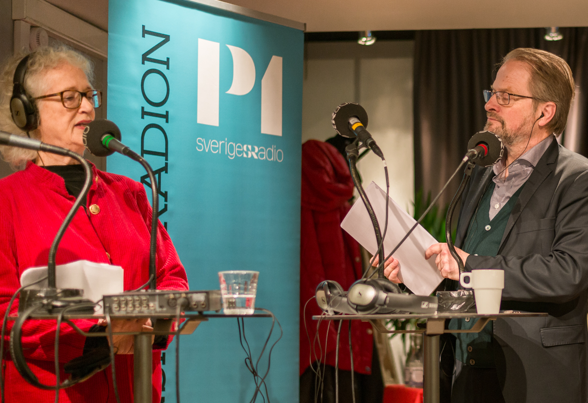 During the Nobel Day, December 10, 2016, SR P1 broadcast the Science Radio and Culture Radio directly from Kulturhuset in Stockholm.